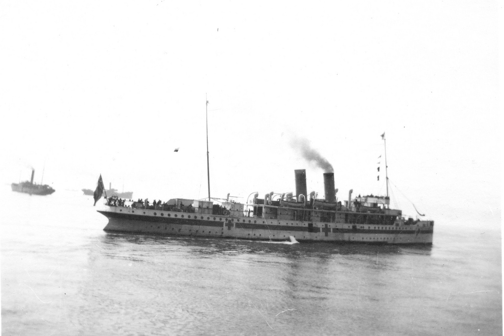 Hospital ship HMHS Dieppe (1905)